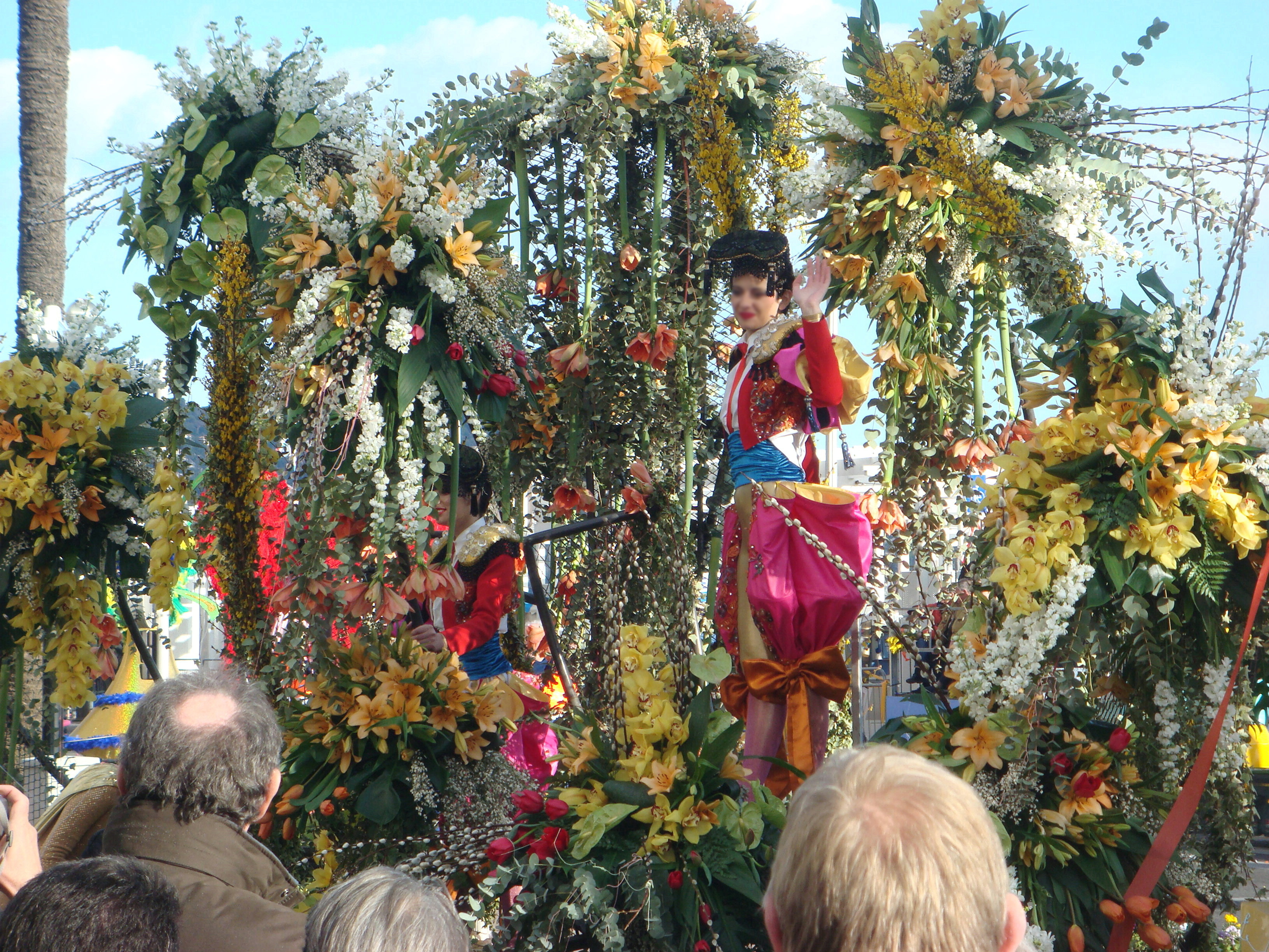 A float of the Bataille de fleurs during the Nice Carnival 2009, in Nice, France.